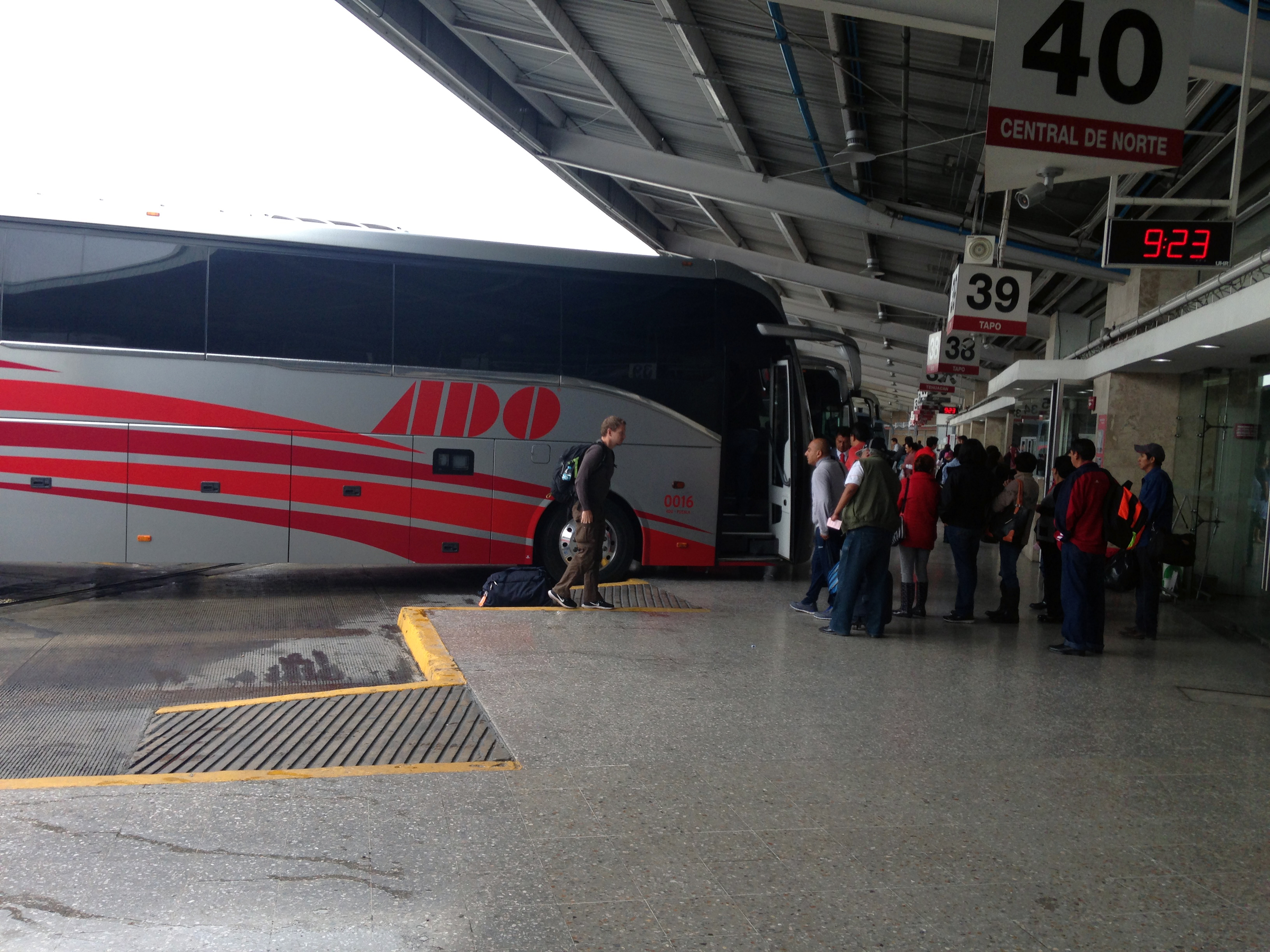 People boarding at ADO lanes, Puebla Bus Terminal (CAPU).